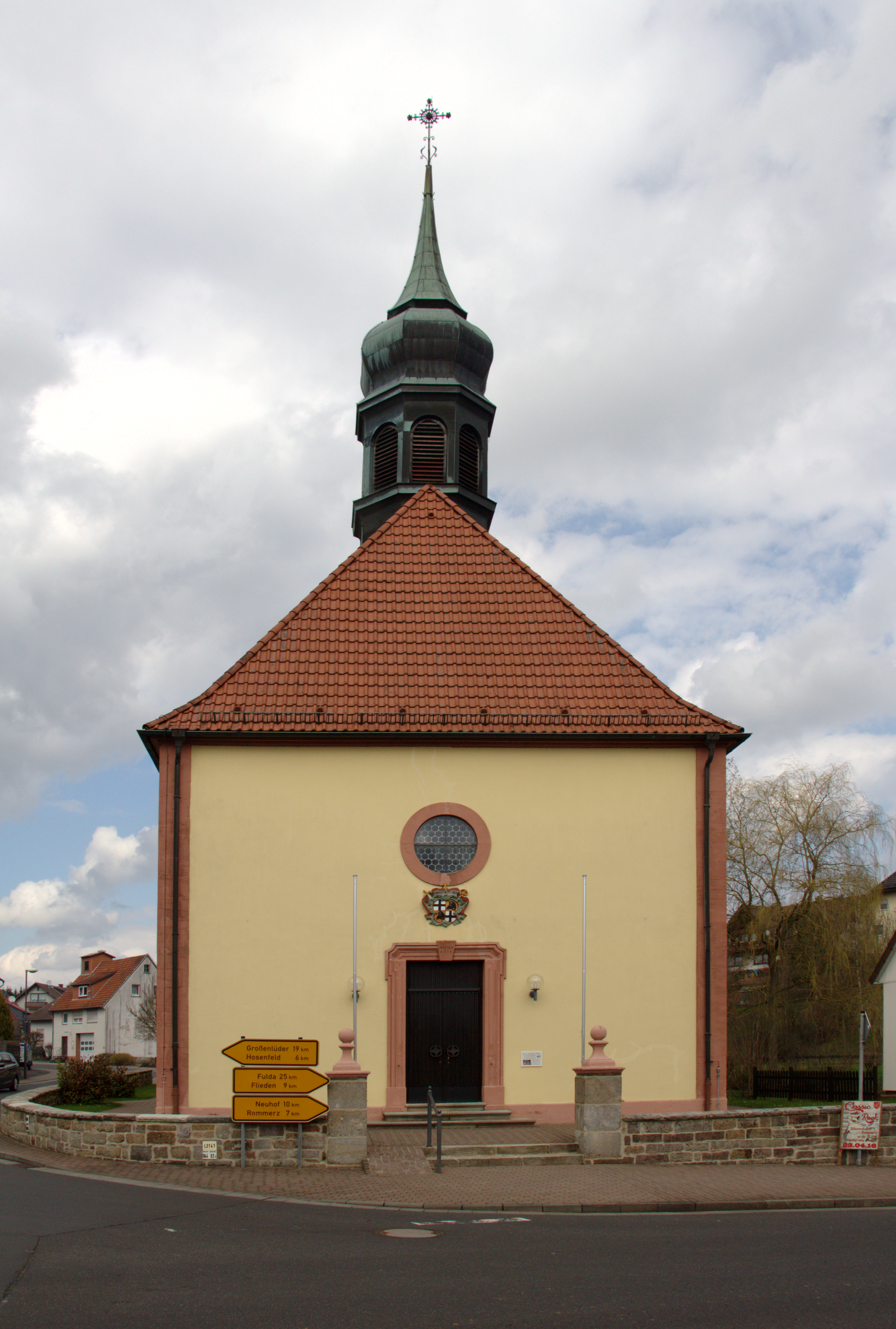 Catholic Church (St. Bartholomäus) in Hauswurz, Neuhof, Hesse, Germany